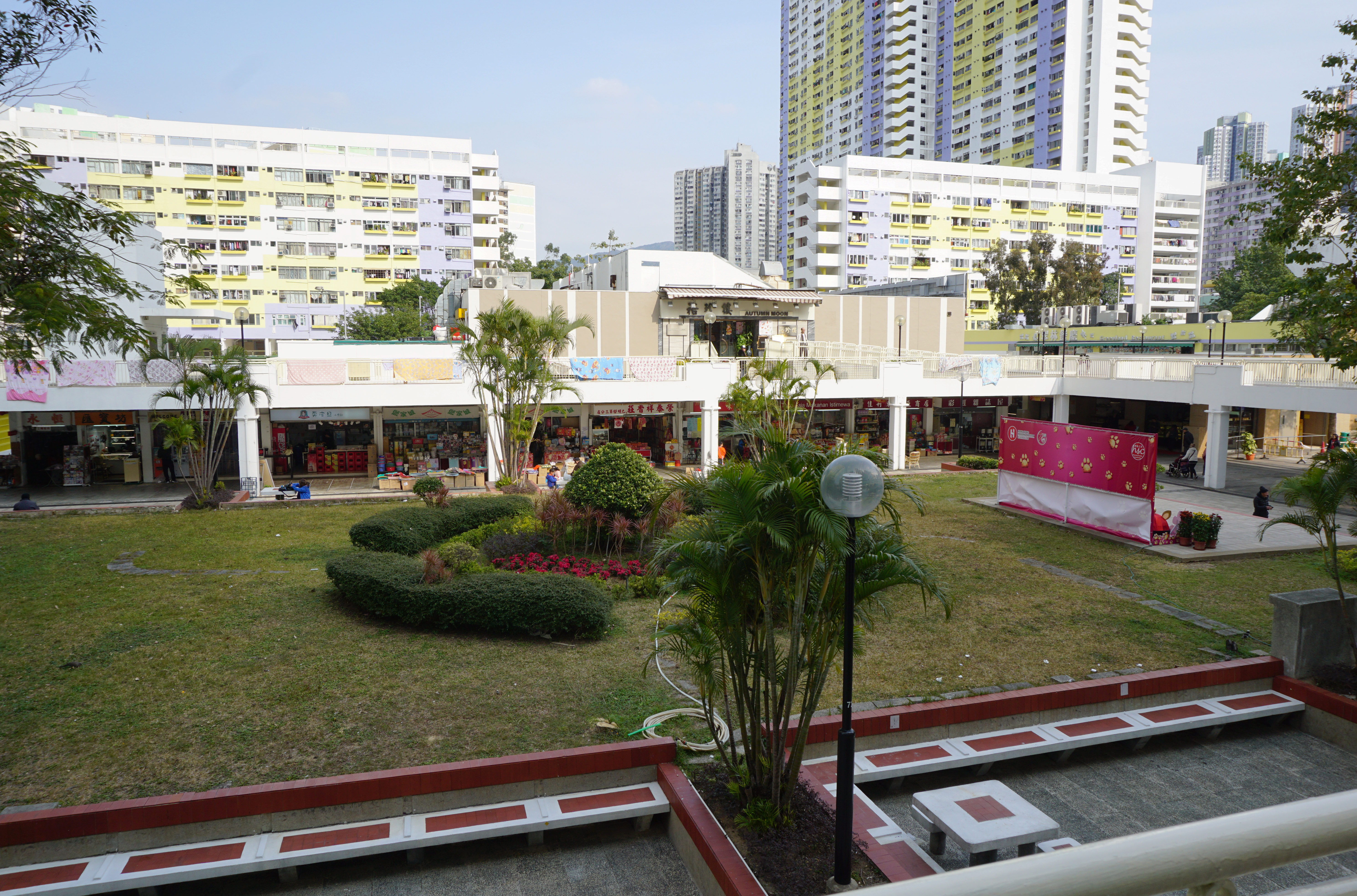 Jat Min Chuen Shopping Centre in Sha Tin Wai, Hong Kong.